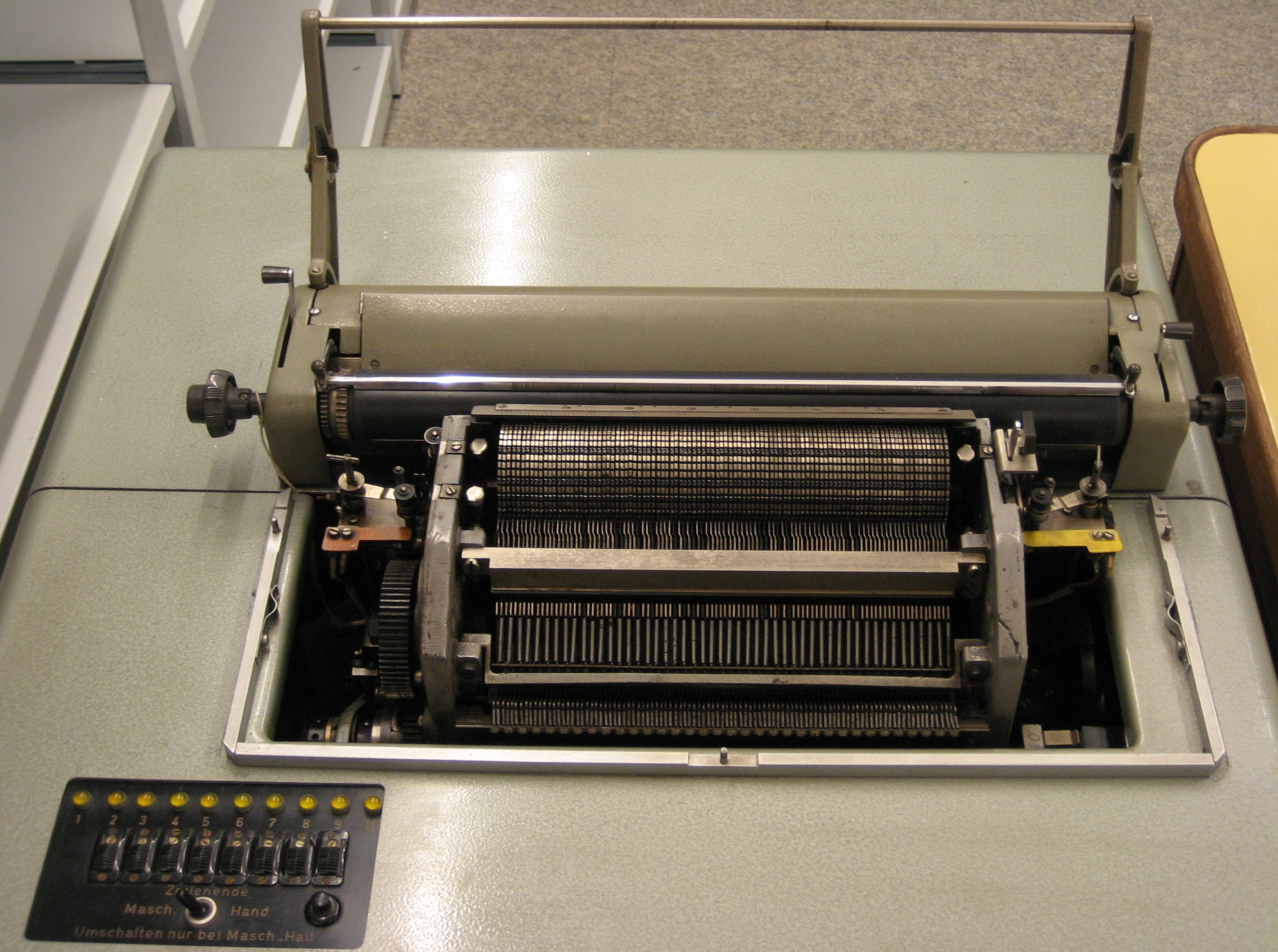 Printer of the ZRA 1